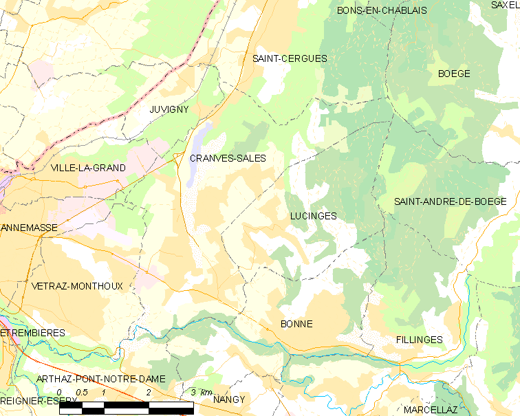 Map of French municipality Cranves-Sales